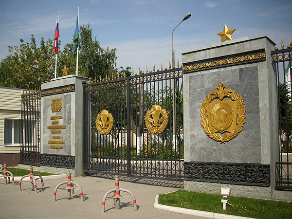 Main entrance to РВВДКУ, Ryazan, 2009